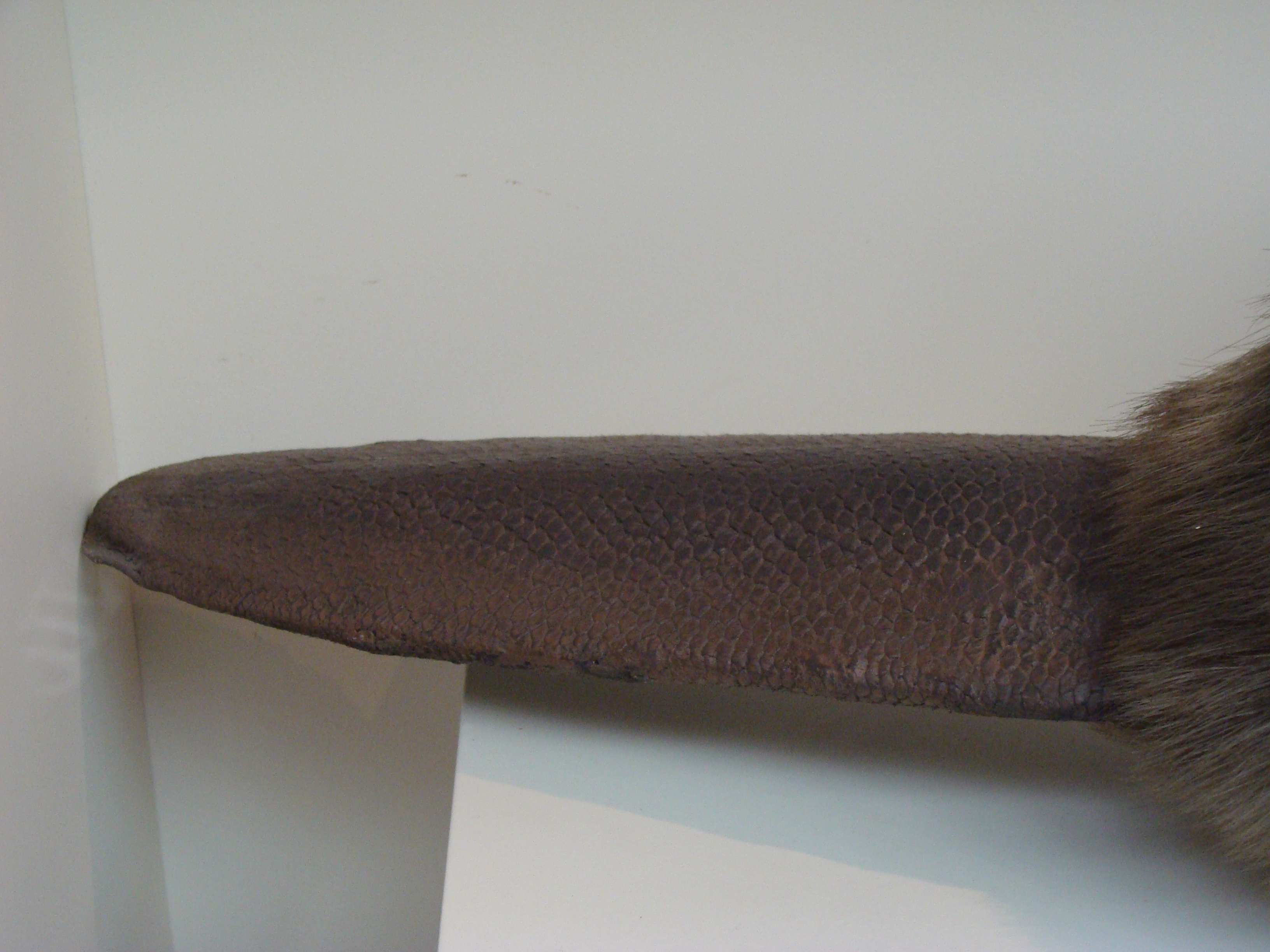 Castor fiber (European Beaver) in the Natural History Museum of London